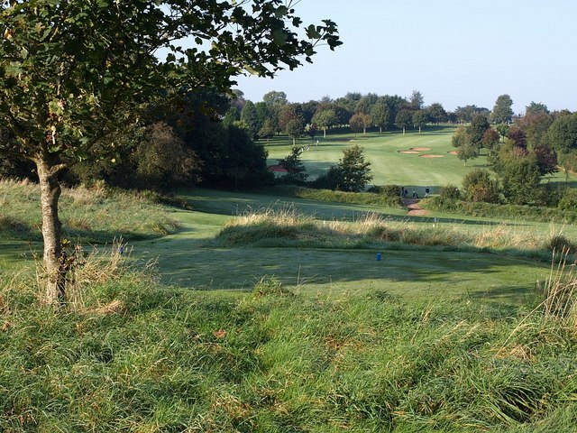 Churston Golf Club. A view a little northwest of 990407. I think these must be practice greens in the foreground.